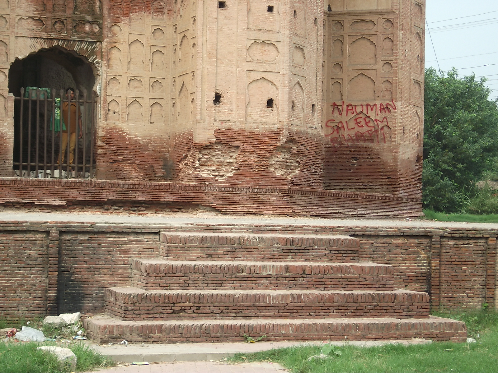 Stairs of Ground floor of the tomb of Khan-e-Jahan Bahadur Kokaltash, Lahore